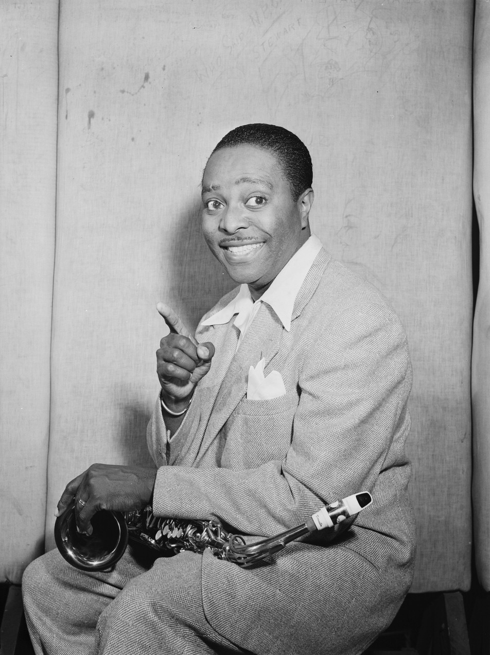 Portrait of Louis Jordan, Paramount Theater(?), New York, N.Y., ca. July 1946